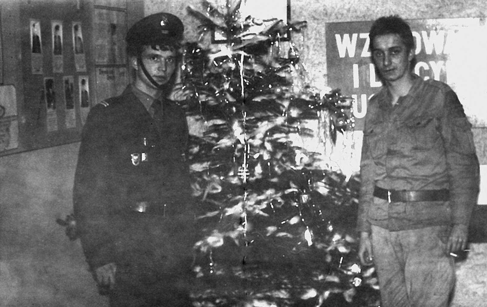 Border Protection Forces in Równe